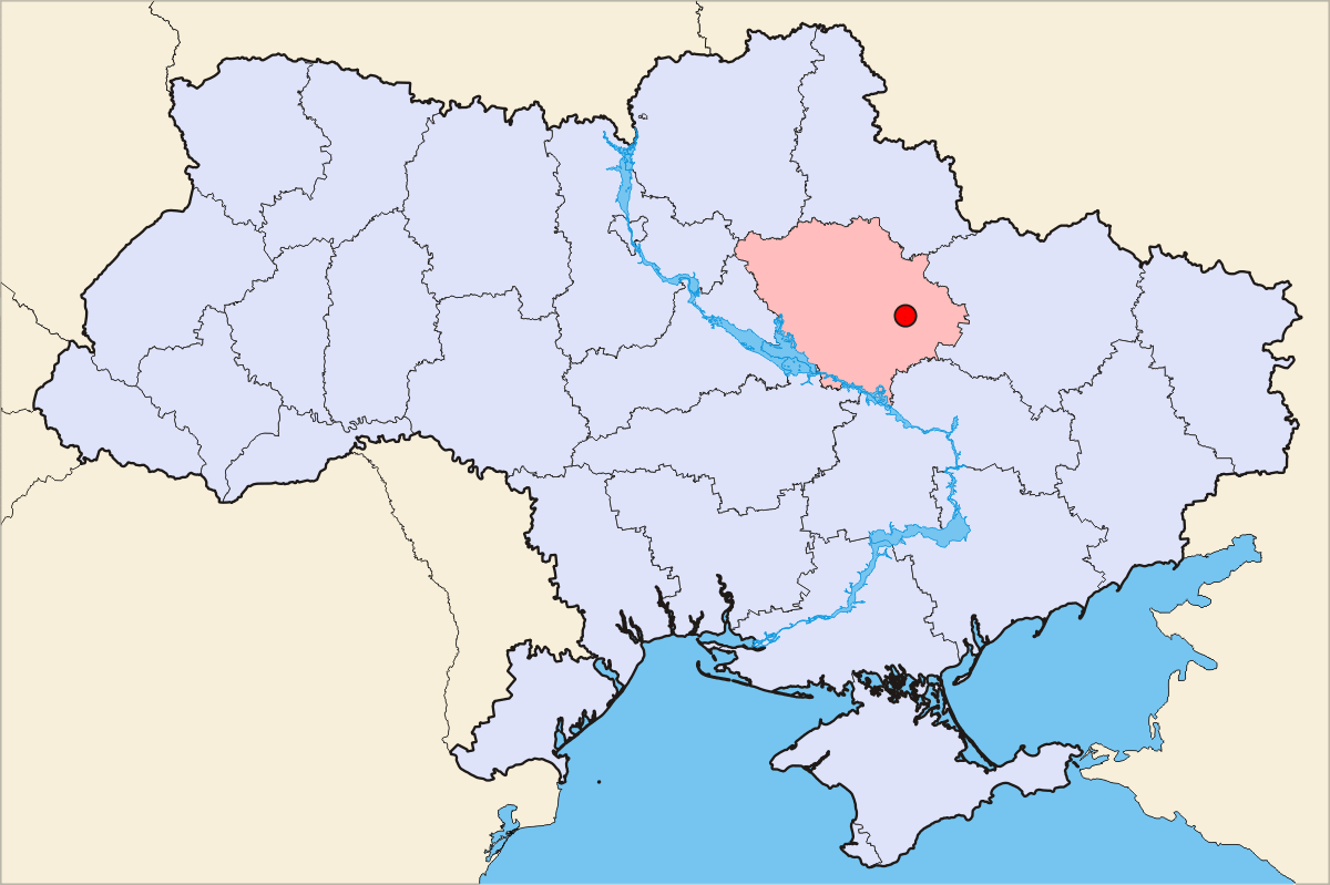 Description = Poltava geographical position Source = own work, Skluesener Date = 15.01.2006 Author = Skluesener Credits = Colours chosen according to a map of steschke